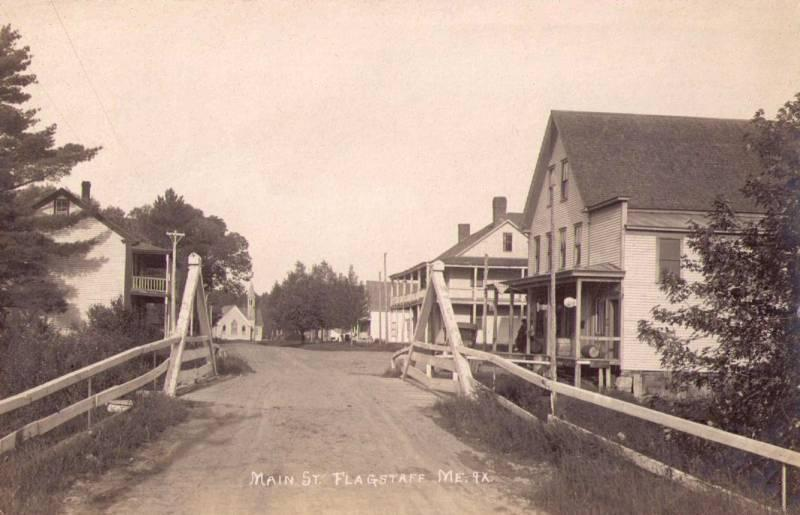 View of Main Street, Flagstaff, Maine